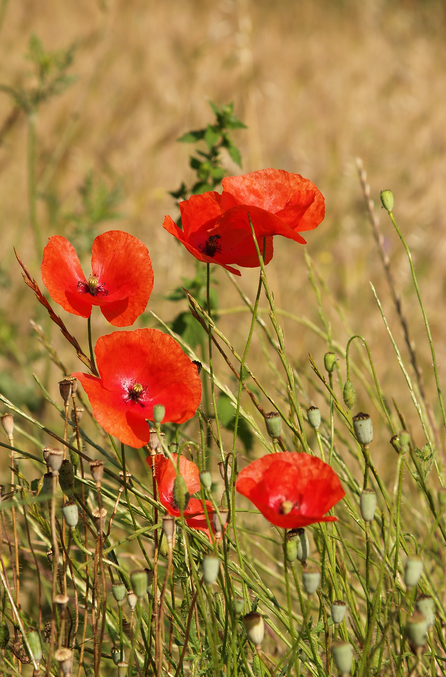 Common Poppy (Papaver rhoeas), Thasos, Greece